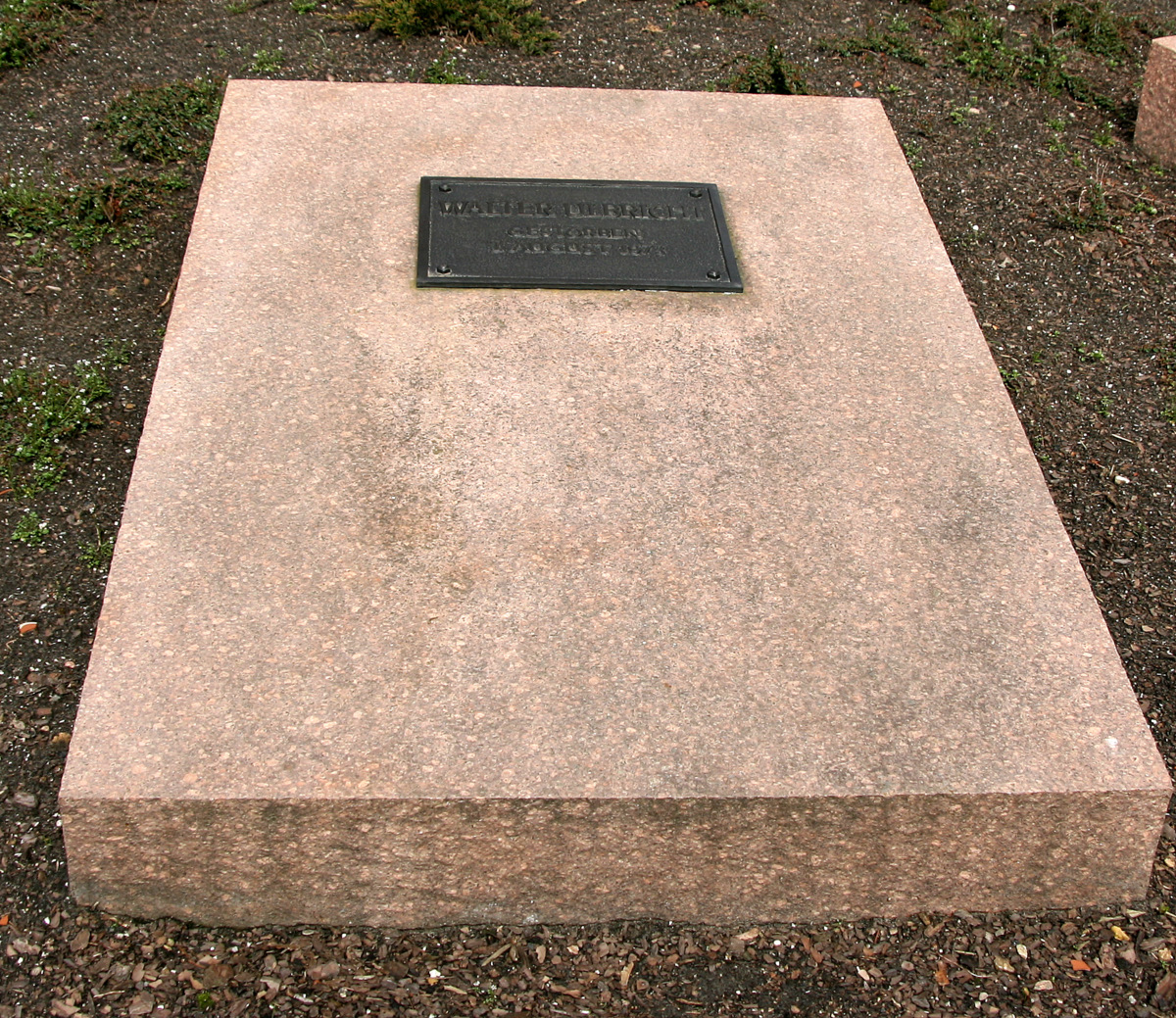 Tomb of W.Ulbricht in Berlin